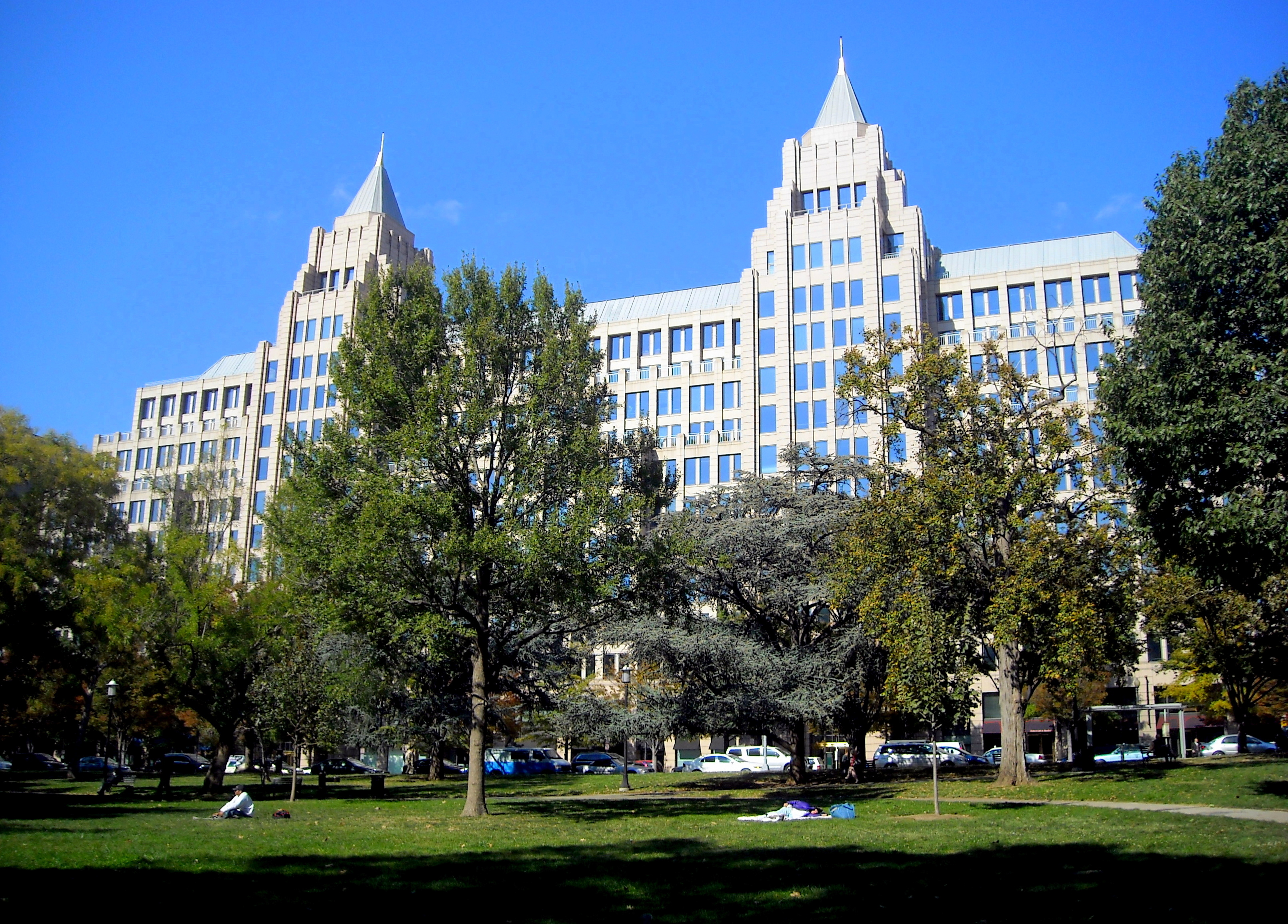 One Franklin Square, the tallest commercial building in Washington, D.C., with Franklin Square in the foreground.